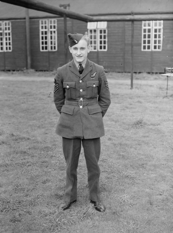 Portrait of John Hannah RAF, awarded the Victoria Cross: Belgium, 13 September 1940.